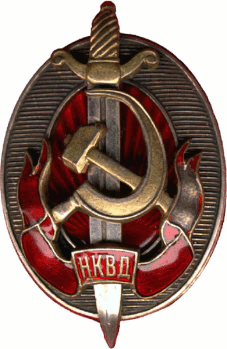 NKVD 1940 honored officer badge